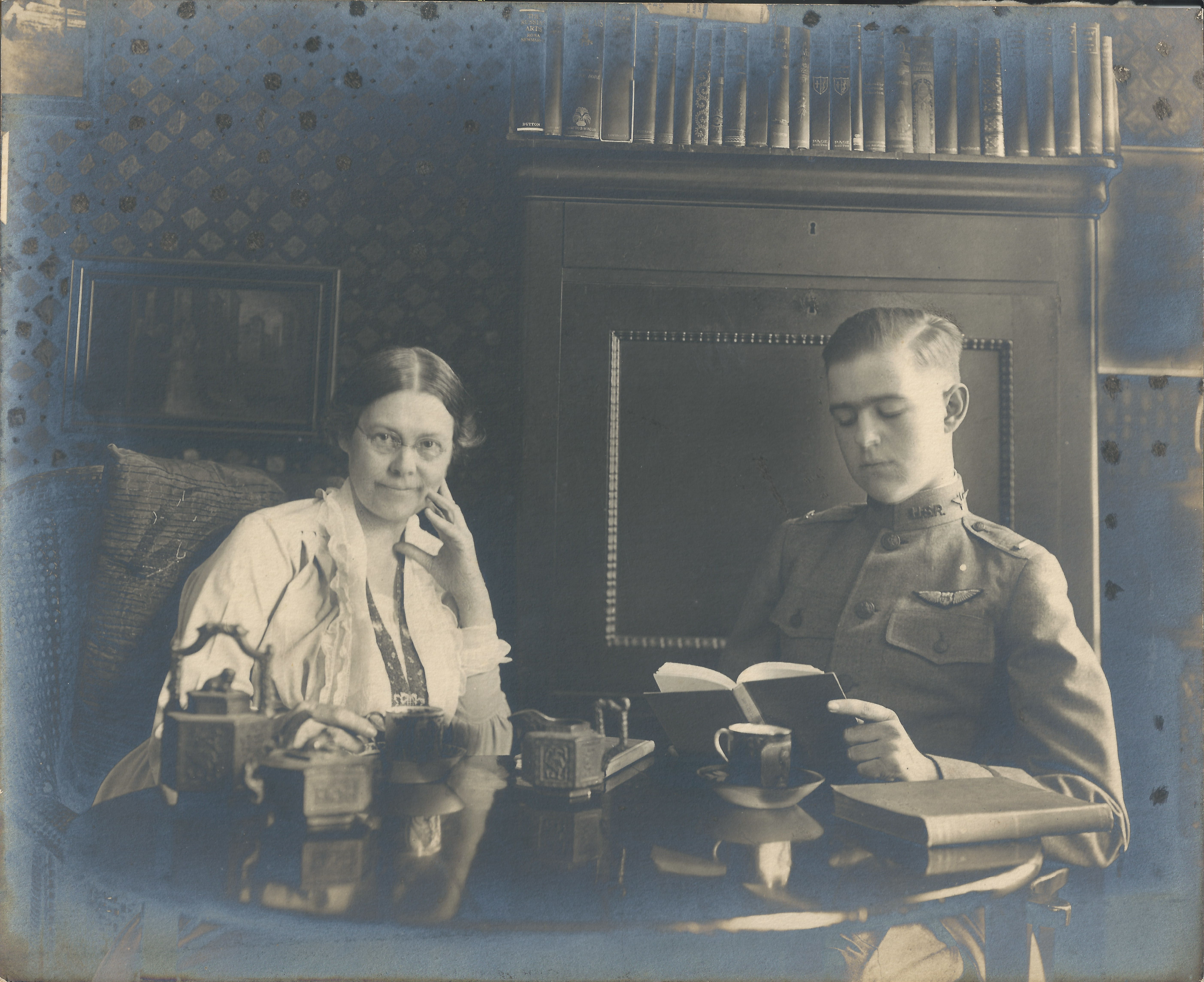 Margaret Maltby and Philip Meyer are having tea while he is home in New York City's Morningside Heights on leave from the United States Air Service, having finished flight training at Flight School at Kelly Field in San Antonio, Texas. ca 1918.)